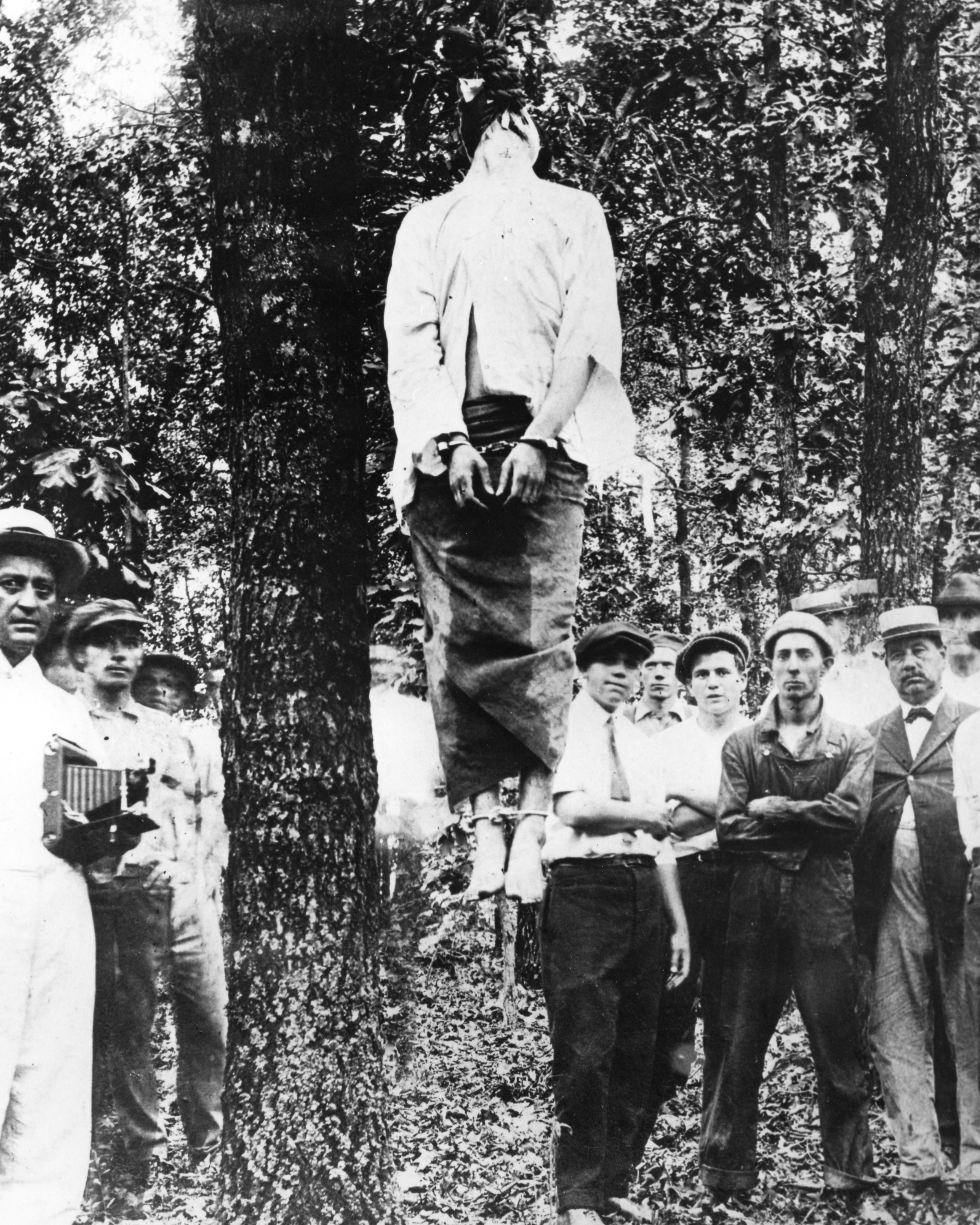 Lynching of Leo Frank, Frey's Hill (Frey's Mill?) Cobb County, Georgia, on the morning of August 17, 1915. The man on the far right in the straw hat is Newton A. Morris.